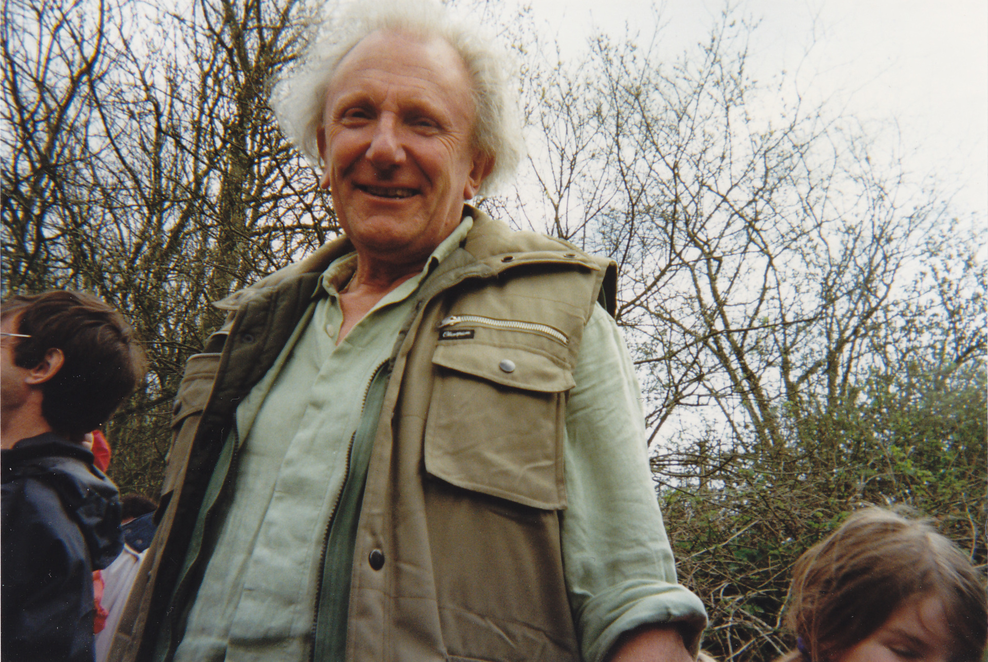 The artist and railway enthusiast David Shepherd, pictured in the mid-1990s.